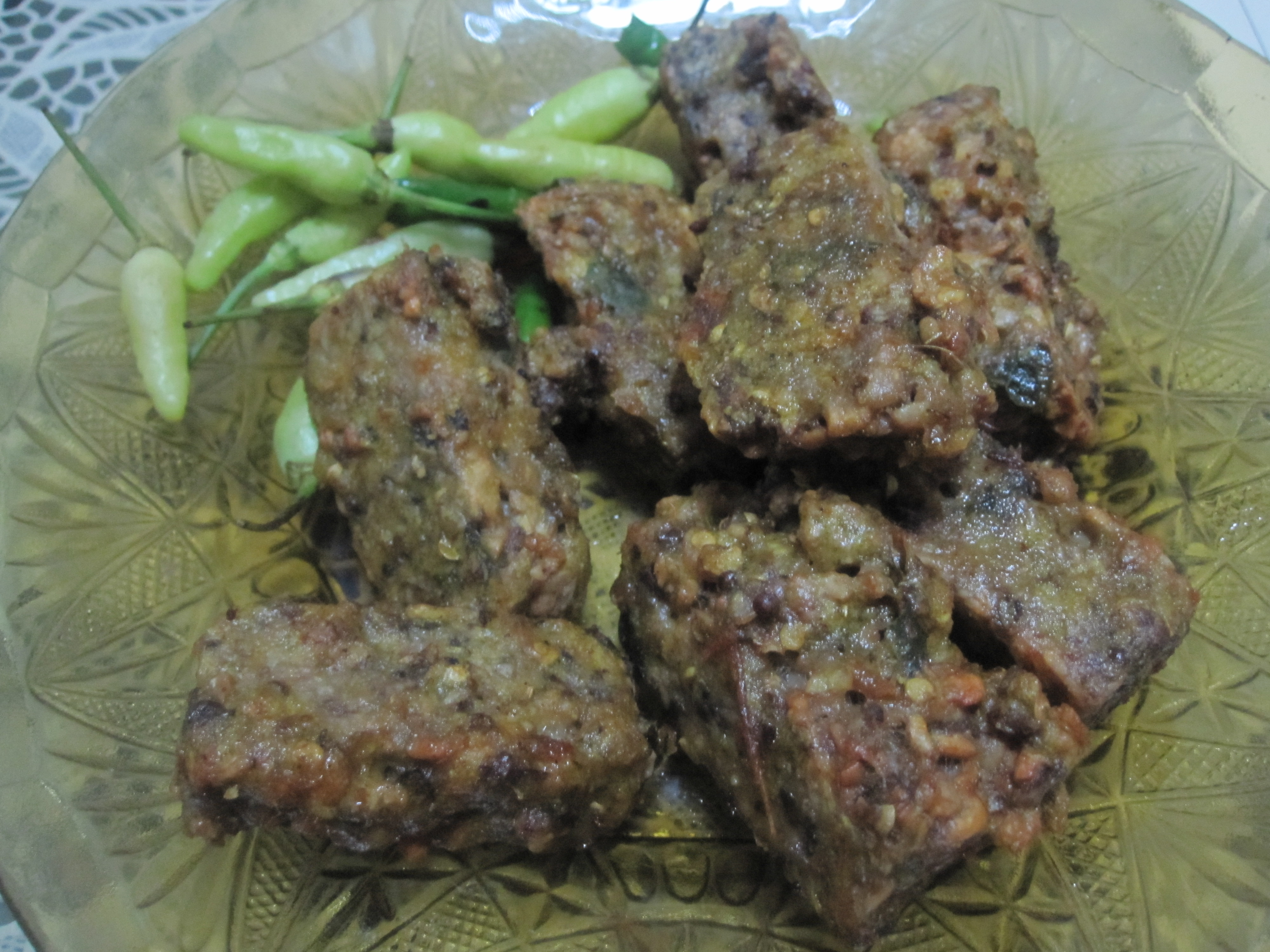 Flour-coated and fried tempe menjes, a variation of the Indonesian food tempeh found in Malang, East Java.